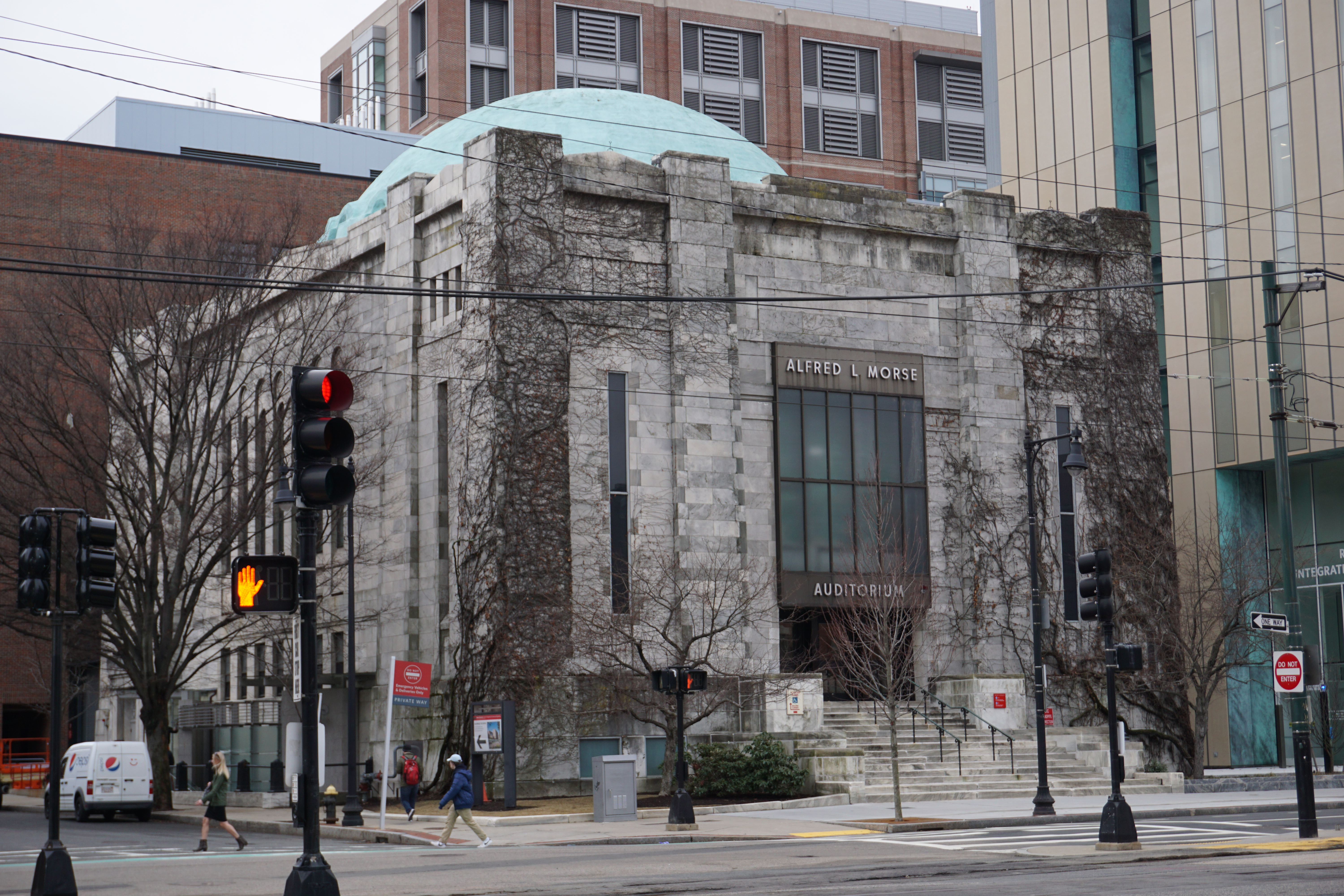 Boston University Morse Auditorium at 602 Commonwealth Avenue in Boston, Massachusetts (USA) on Feb 12 2018. Home of Temple Israel (Boston) 1906-1926.